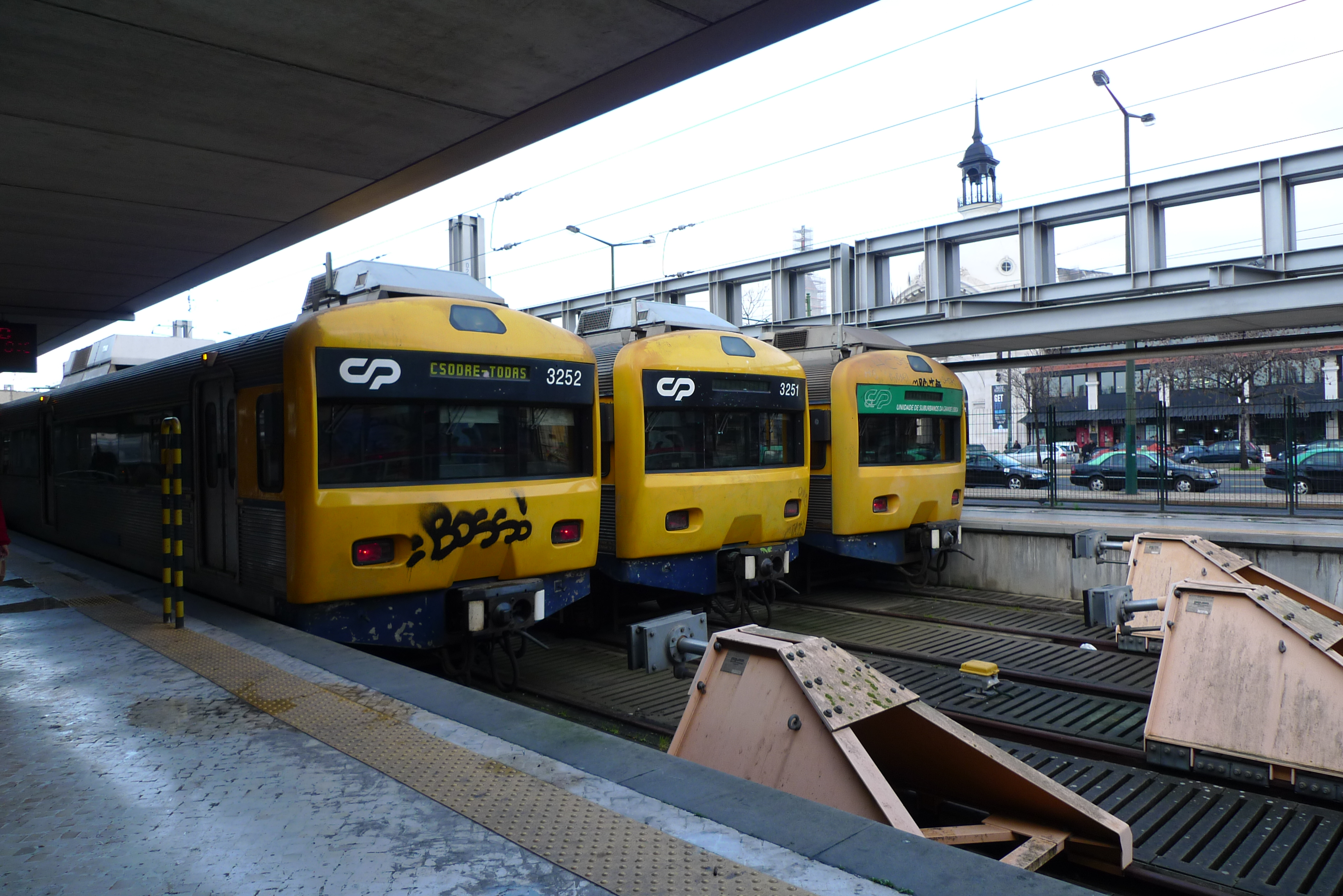 Three trains (train type 3150/3250) at Lisbon Cais do Sodré train station; Lisbon, Portugal